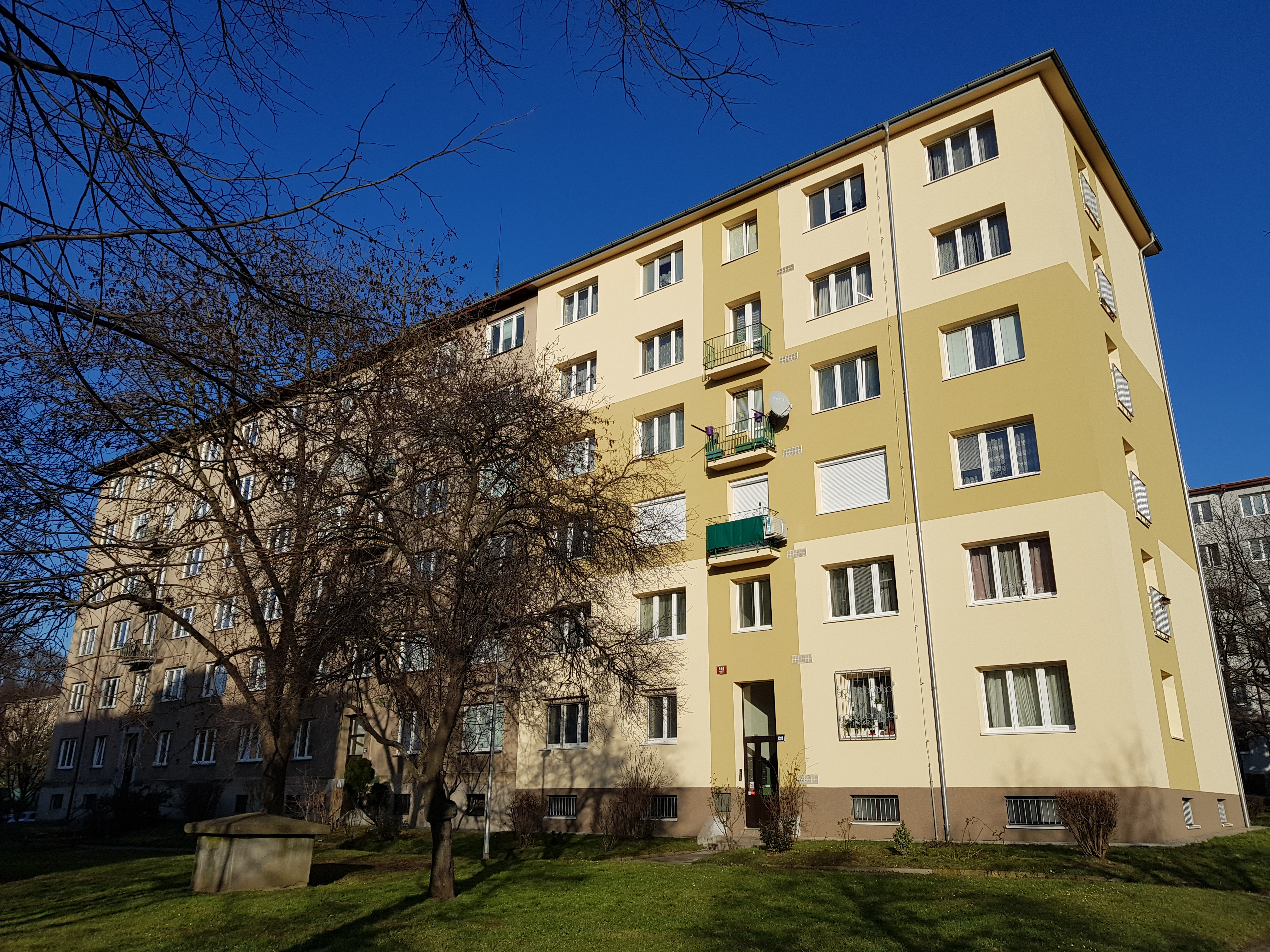 The housing estate Hloubětín in Prague, houses 558/125, 560/127 and 561/129